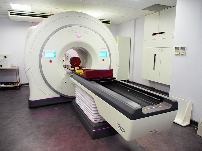 The Accuray TomoTherapy HDA System in the Centre Oscar Lambret, Lille, France